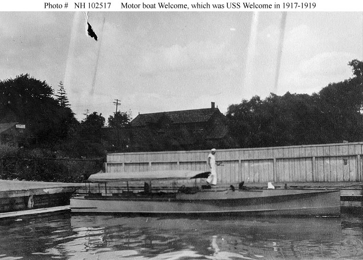 The motorboat Welcome around the time - perhaps just after - her acquisition by the United States Navy for service as the patrol vessel